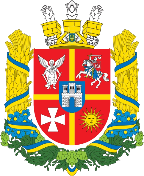 Coat of arms of Zhytomyr Oblast, Ukraine